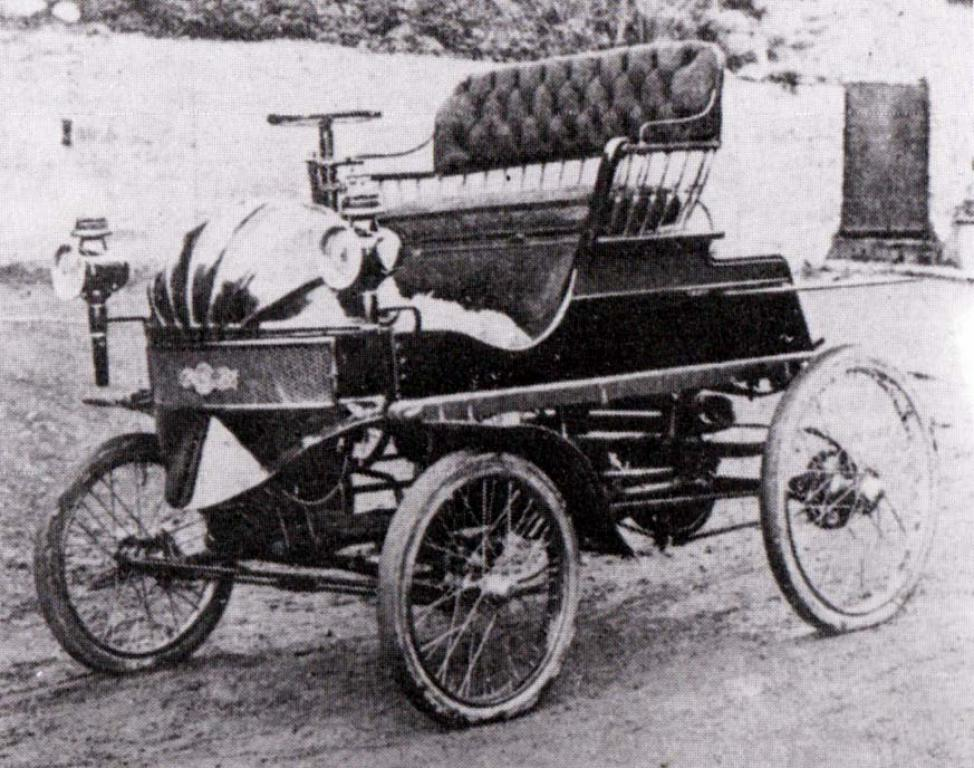 Motorcar produced by Établissements Pieper (Liège) in 1900 with a petrol-electric propulsion consisting of electric power for moving the car and a single cylinder De Dion-Bouton engine for charging it's batteries